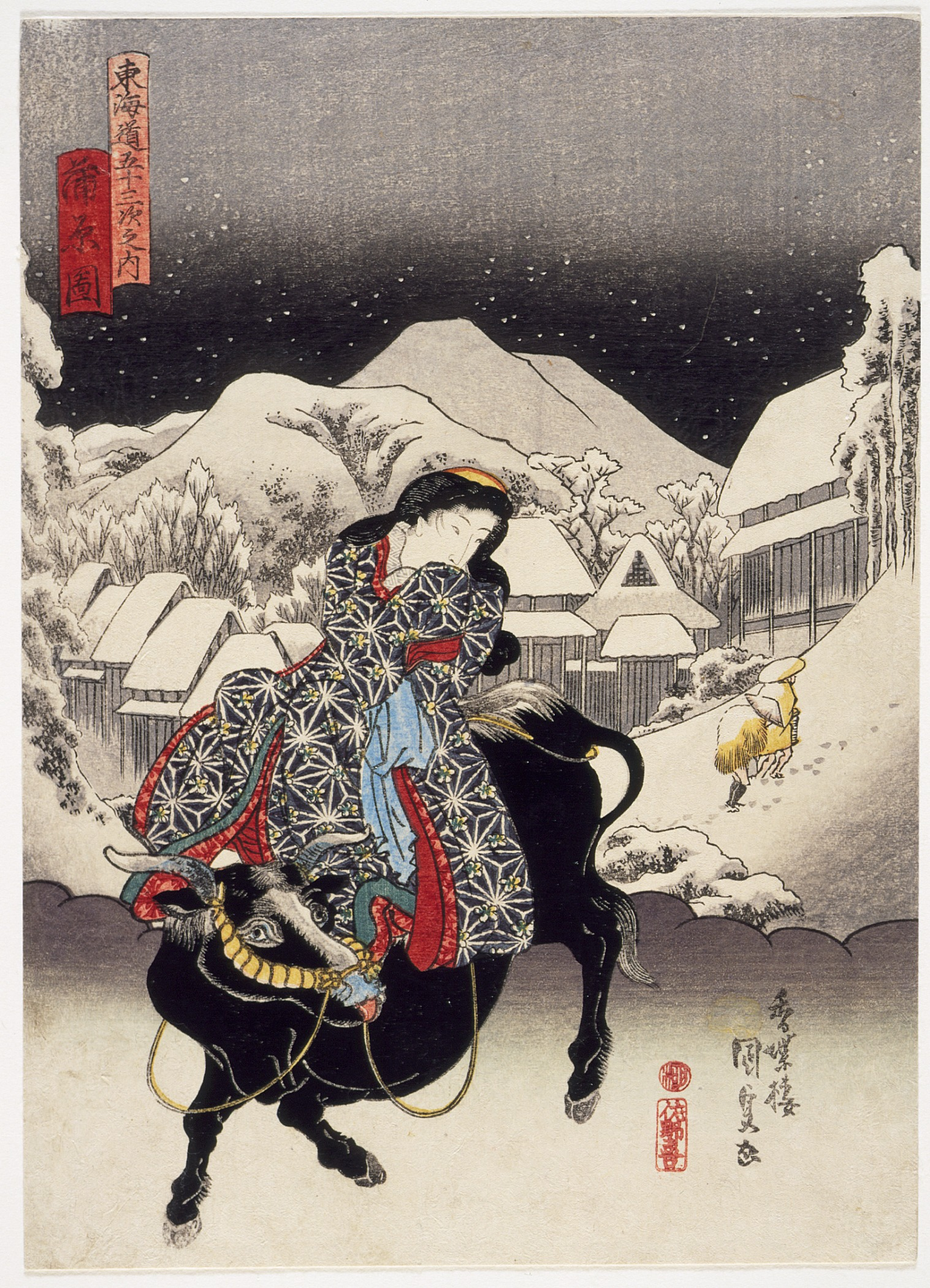 Japan, circa 1838 Alternate Title: Kambara no zu Series: Fifty-Three Stations of the Tōkaidō with Beauties Prints; woodcuts Color woodblock print Gift of Carl Holmes (M.71.100.147) Japanese Art